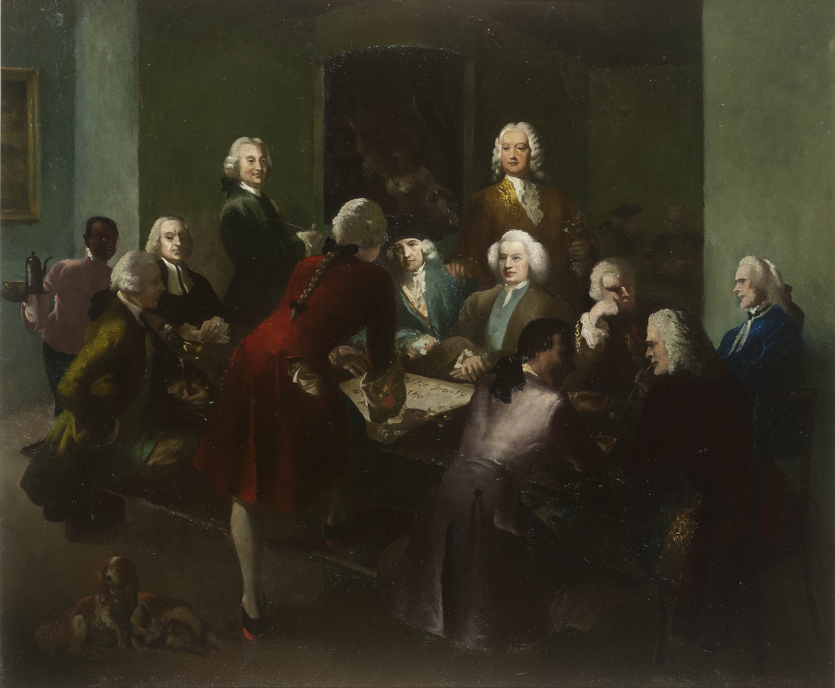 Painted by Miss Anna Zinkeisen, this incorporates the features of five members whose portraits can now be traced as: Dr Stephen Hales (at far end of table), Henry Baker and Viscount Folkestone (both standing), Lord Romney and William Shipley (centre of table, far side). The others present at the meeting were John Goodchild, Gustavus Brander, James Short, Nicholas Crisp, Charles Lawrence and Husband Messiter.